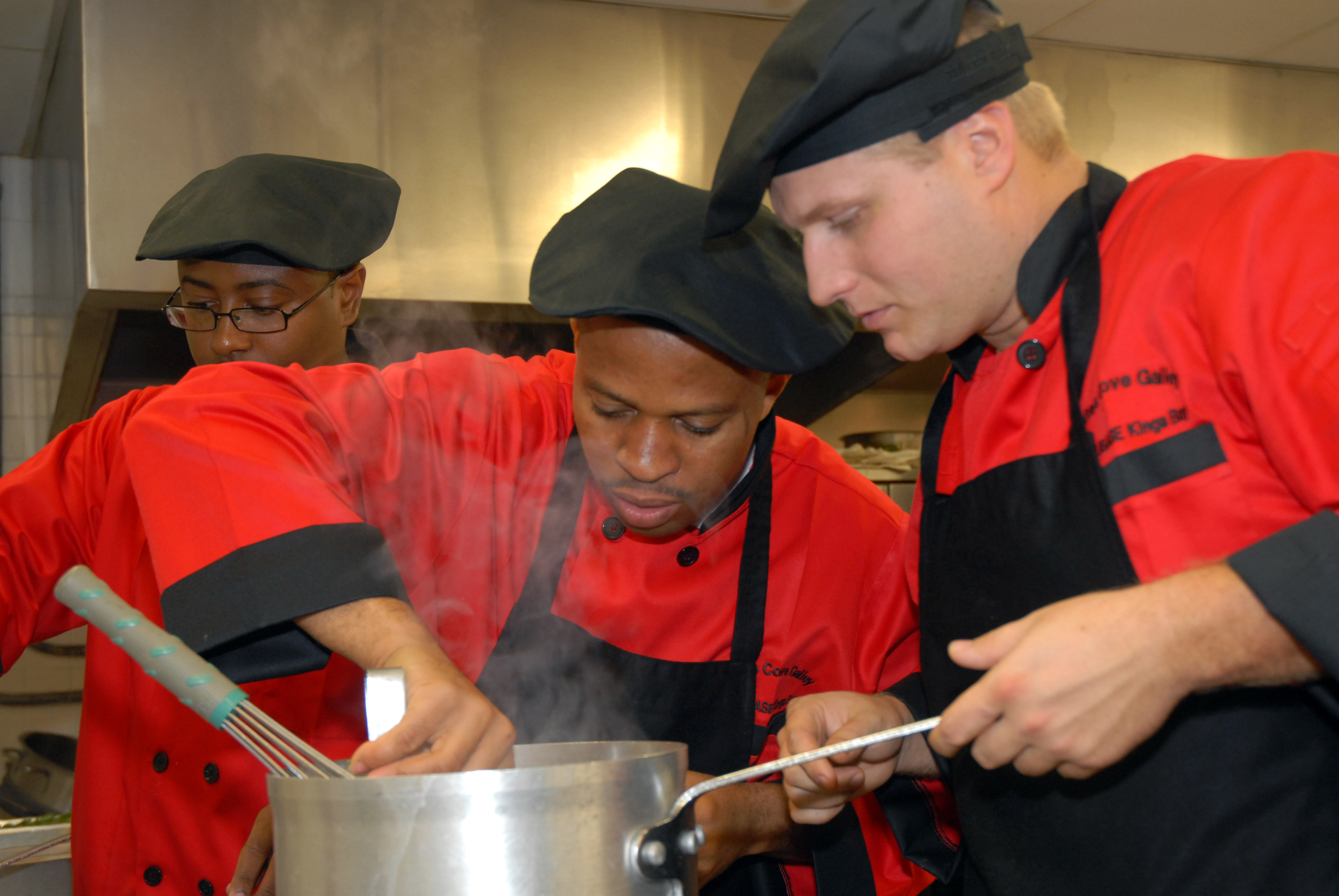 MAYPORT, Fla. (Nov. 13, 2007) Team members assigned to Naval Submarine Base Kings Bay, Ga., work together to create one of three dishes they are require to make using potatoes. The Sailors are participating in Commander, Navy Region Southeast's first Navy Iron Chef Competition on board Naval Station Mayport. U.S. Navy photo by Mass Communication Specialist 1st Class Toiete Jackson (Released)